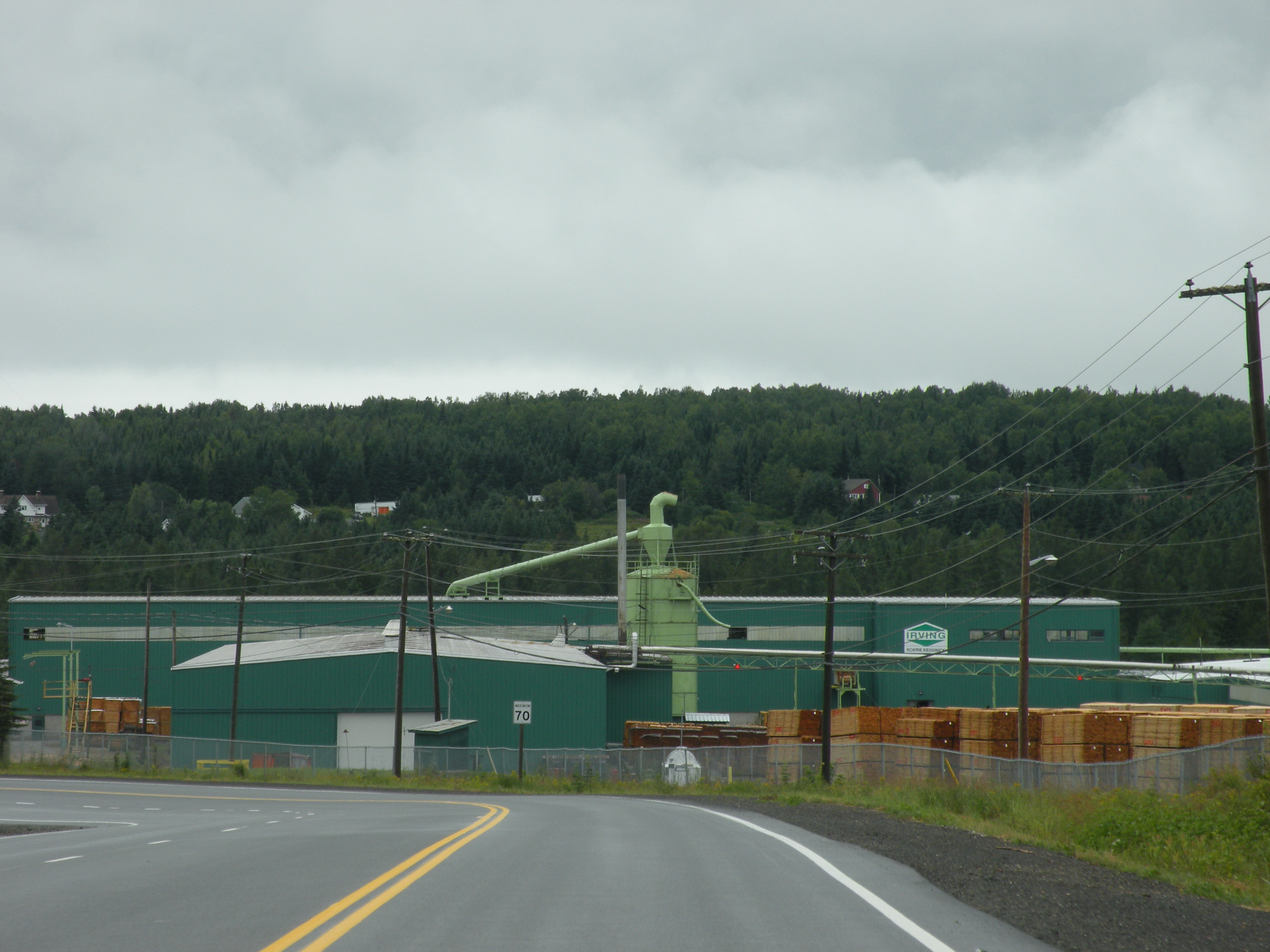 The J.D. Irving fatcory in Kedgwick, New Brunswick.